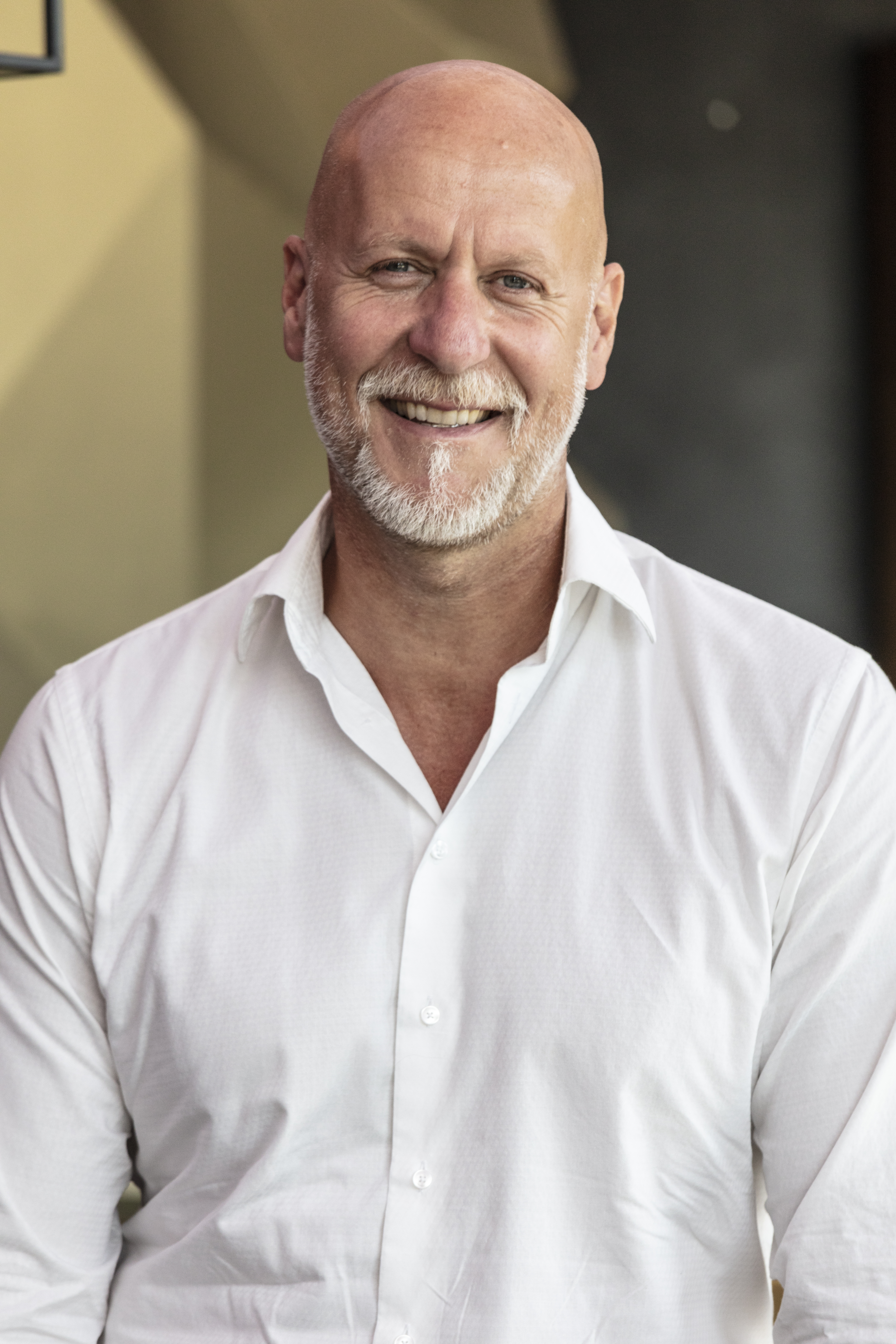 Rainer Schaller, President and Chief Executive Officer of the RSG Group